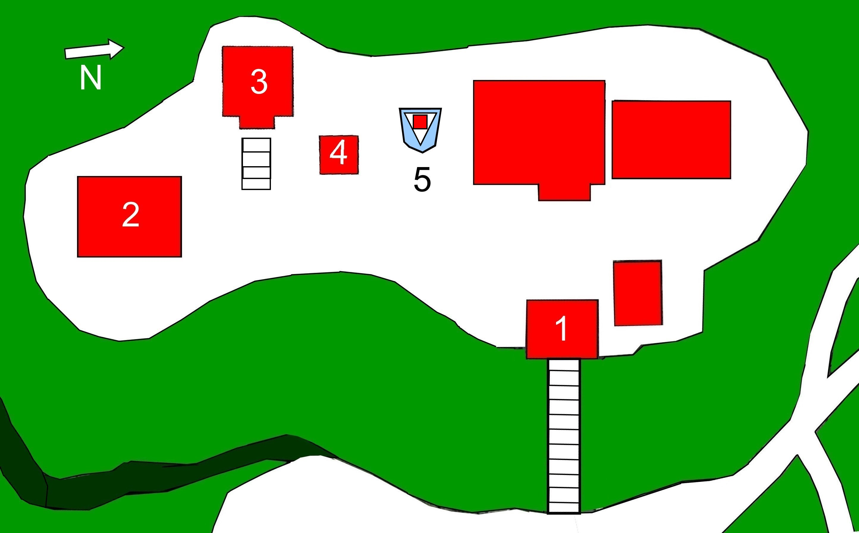 Layout of Sankakuji temple, Japan